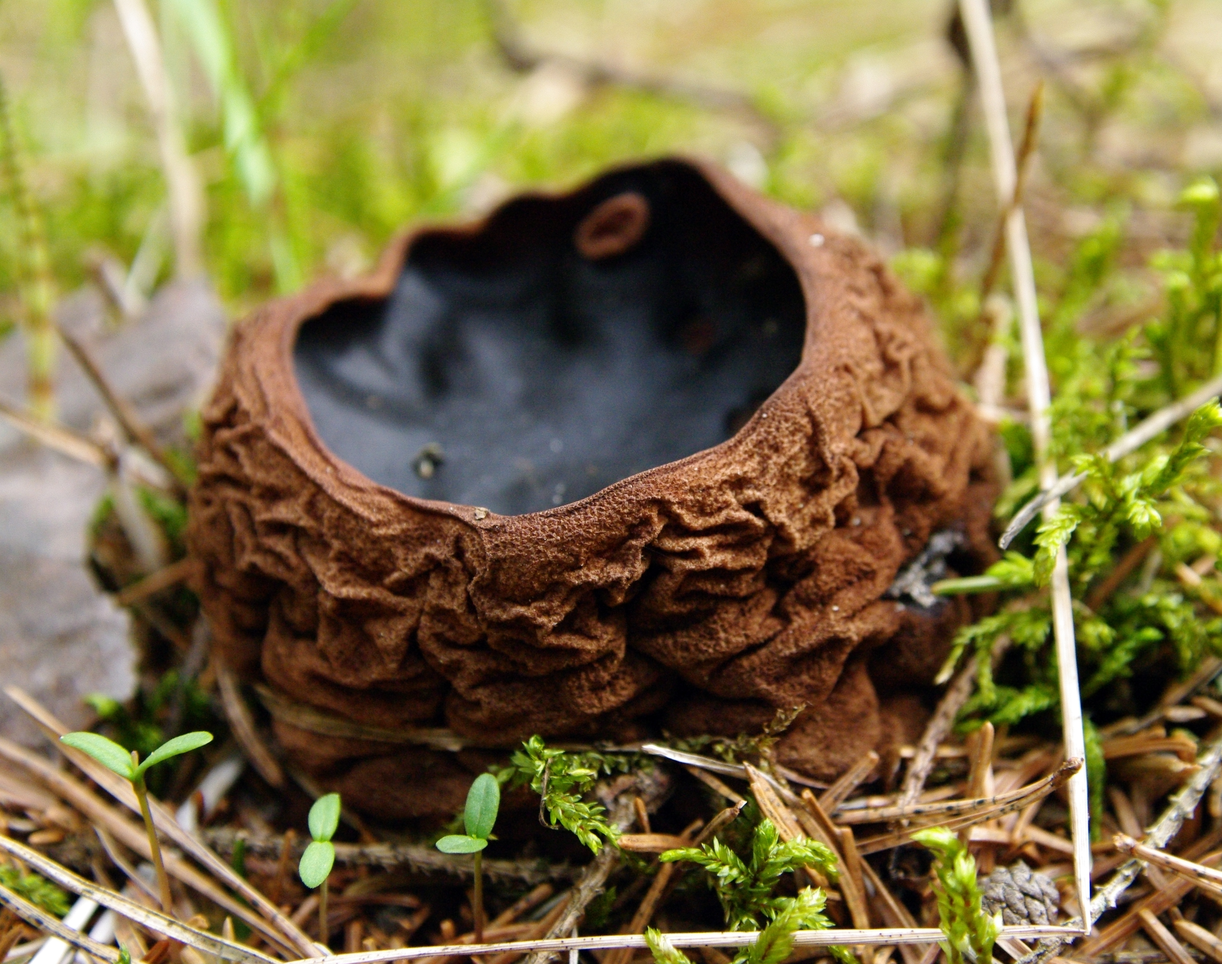 Sarcosoma globosus in Estonia.